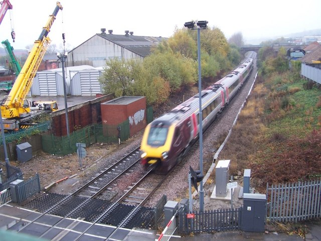 Holmes Station, Rotherham Holmes Station was an intermediate stop on the Sheffield and Rotherham Railway, the first railway in both towns. The railway was opened on 31 October 1838. A level crossing and footbridge are all that marks the site of the station today.